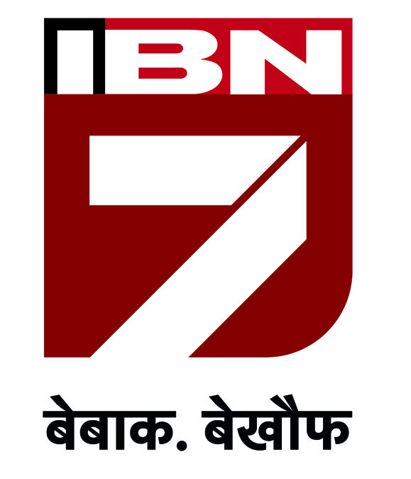 this is the new logo of IBN7 news channel